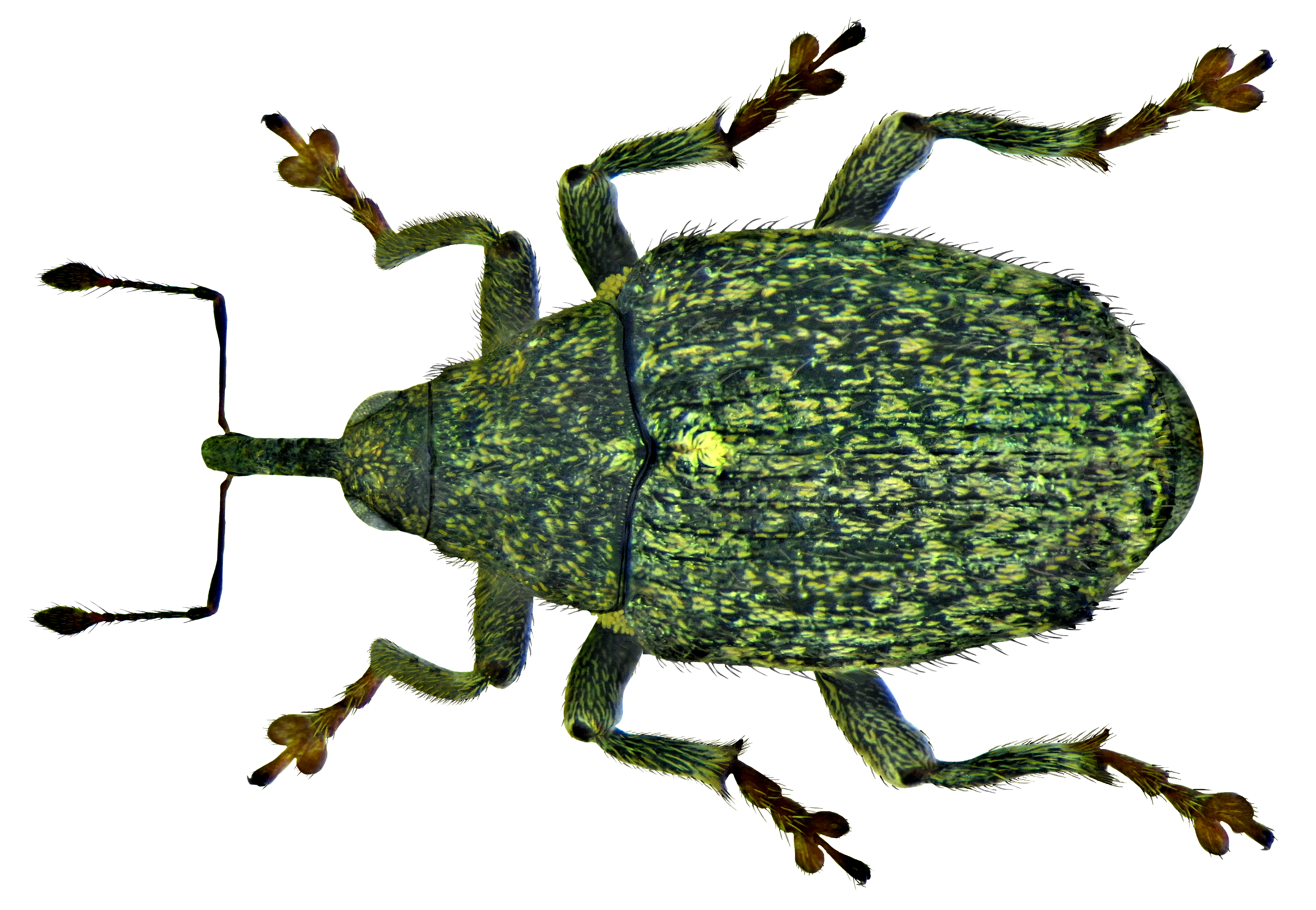 Family: Curculionidae Size: 2,9 mm (2,3-3,5 mm) Origin: Front Asia, North Africa, North America Ecology: lives oligophagous on Cruciferae Location: Germany, Bavaria, Upper Franconia, Selbitz leg.det. U.Schmidt, 18.VII.2003 Photo: U.Schmidt, 2013